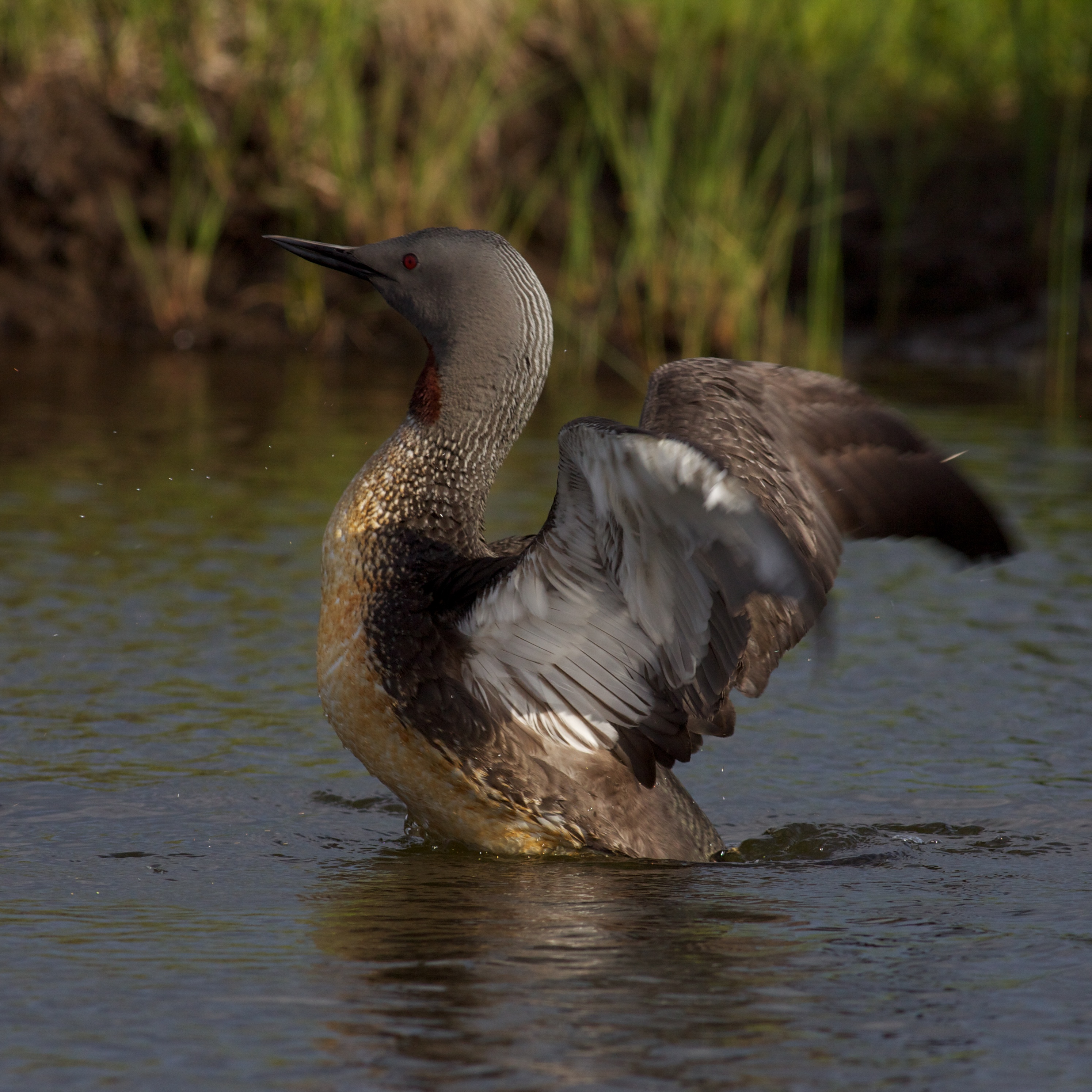 Red-throated loon spreading its wings